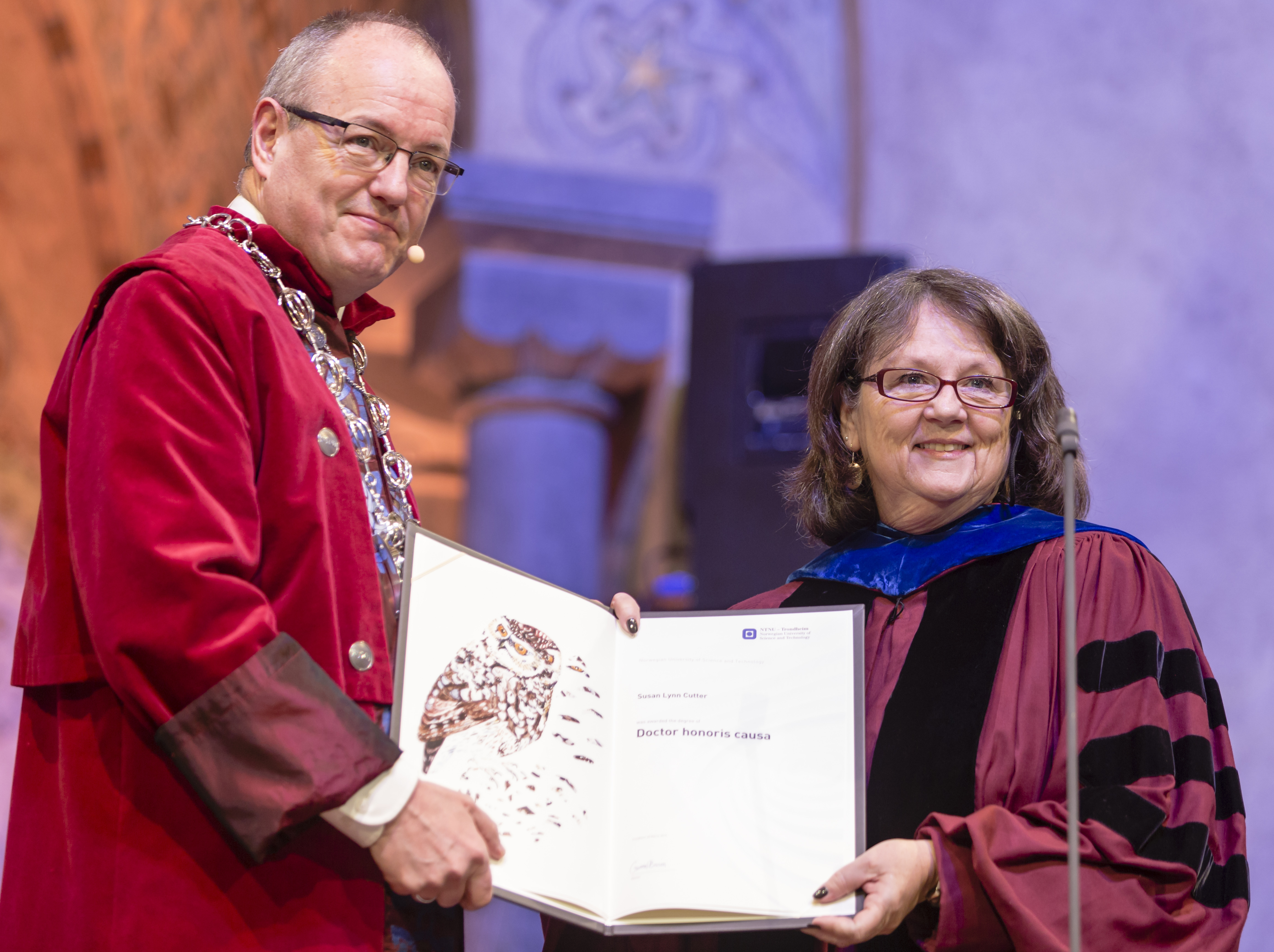 The American geographer and scientist received an honorary doctorate at the Norwegian University of Science and Technology (NTNU) in Trondheim in 2015. The photo shows her with the NTNU rector Gunnar Bovim